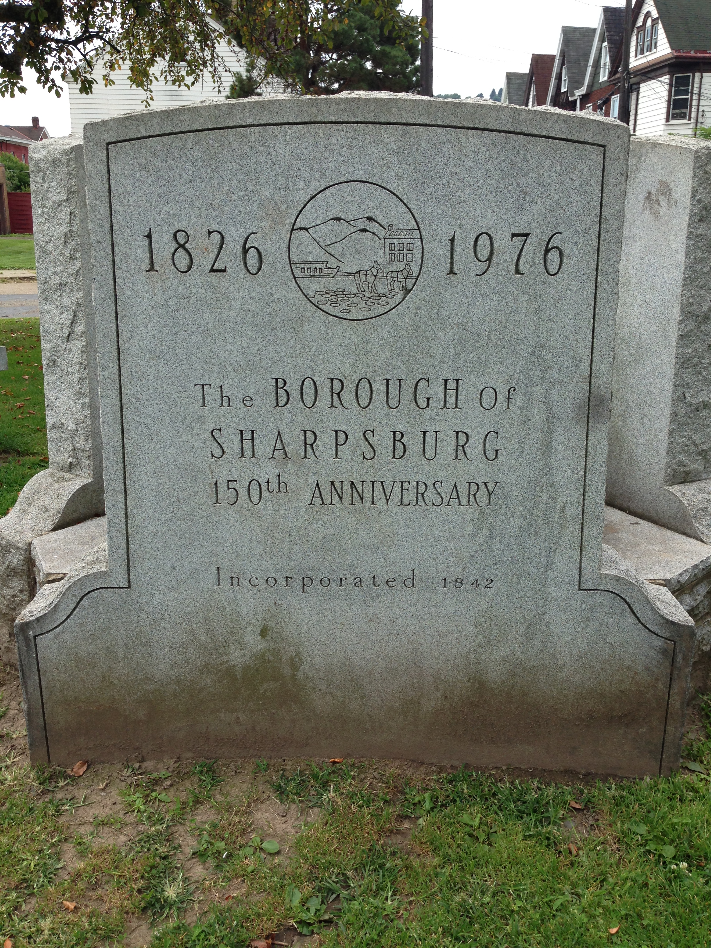 Memorial at Kennedy Park (2).